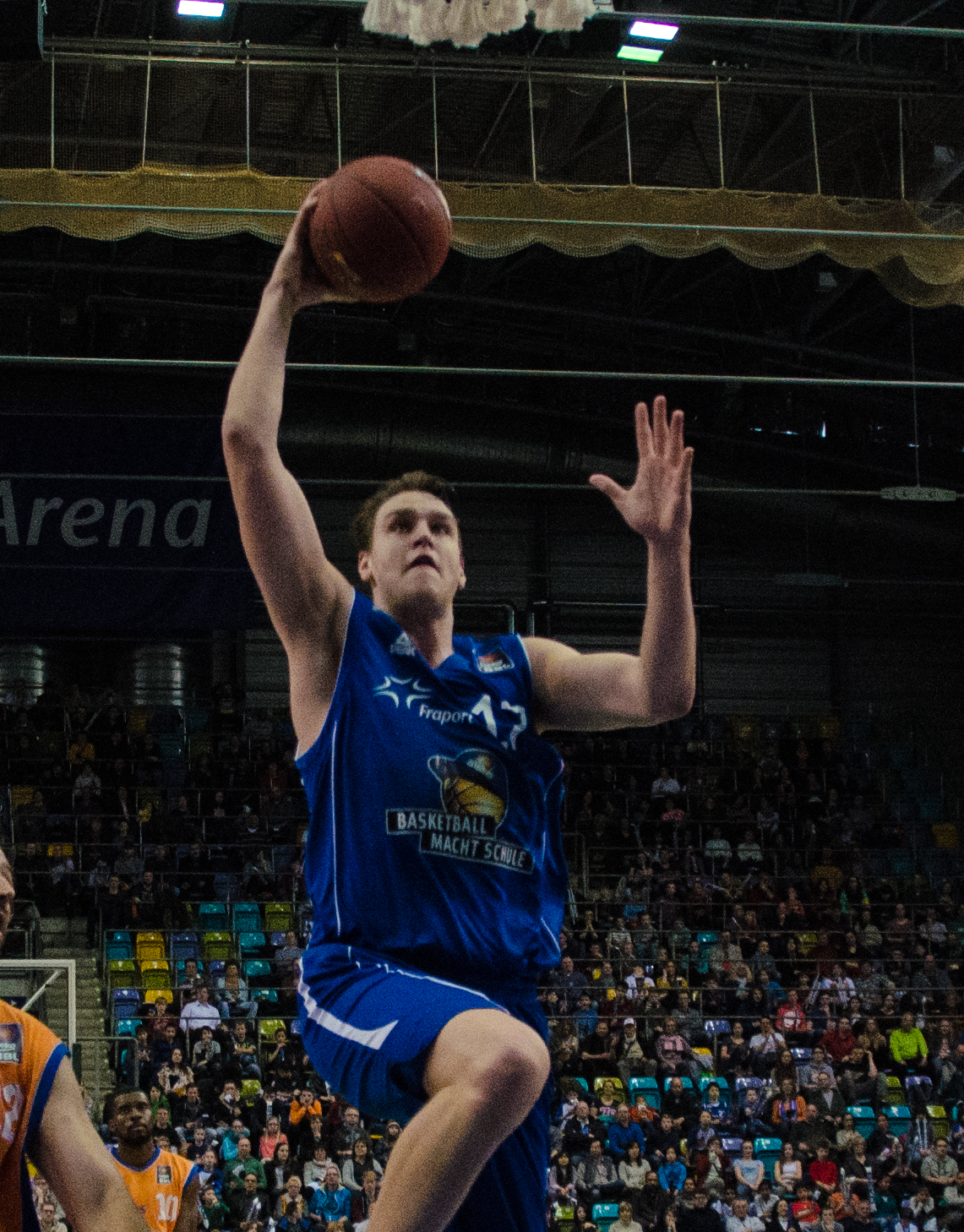 Johannes Voigtmann shooting for Fraport Skyliners vs Mitteldeutscher BC on 1 March 2015 - closeup